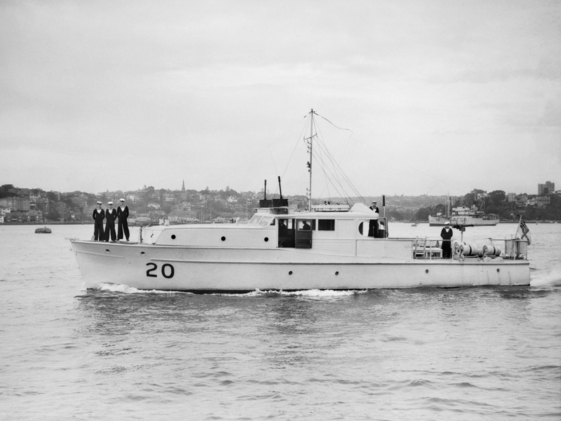 AWM image 301916. SYDNEY, NSW. PORT SIDE VIEW OF THE CHANNEL PATROL BOAT HMAS MARLEAN (20). NOTE THE .303 INCH VICKERS MACHINE GUN AFT AND THE DEPTH CHARGES ON THE STERN. THE AUXILIARY ANTI SUBMARINE VESSEL HMAS YANDRA IS IN THE BACKGROUND.(NAVAL HISTORICAL COLLECTION)